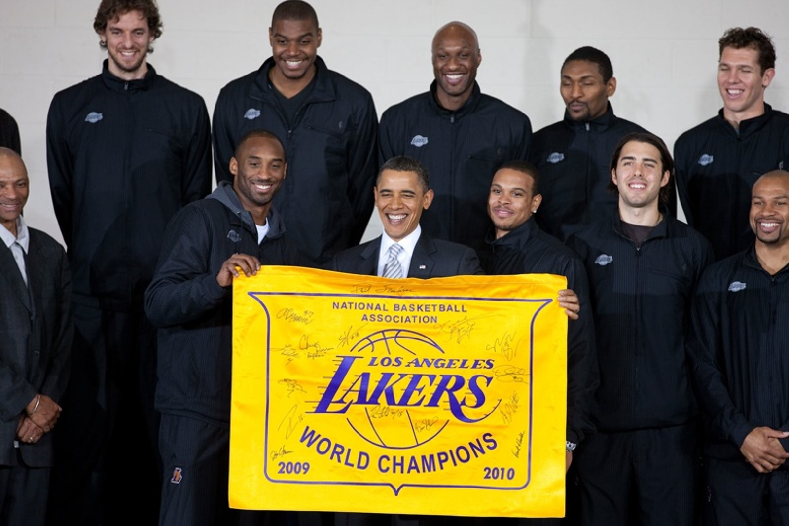 President Barack Obama makes remarks at service event with 2010 NBA Champion Los Angeles Lakers at the THEARC Boys and Girls Club in Washington, District of Columbia.